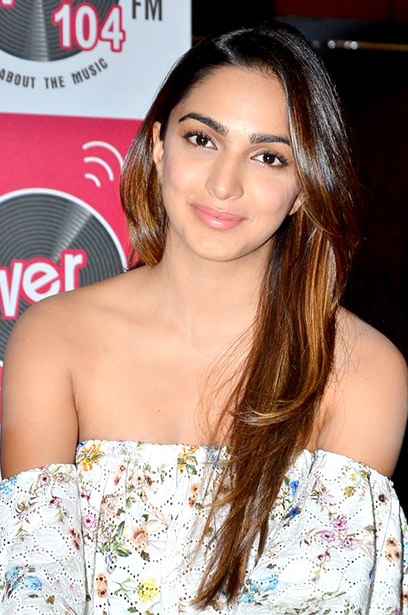 Kiara Advani in promotion of M.S. Dhoni